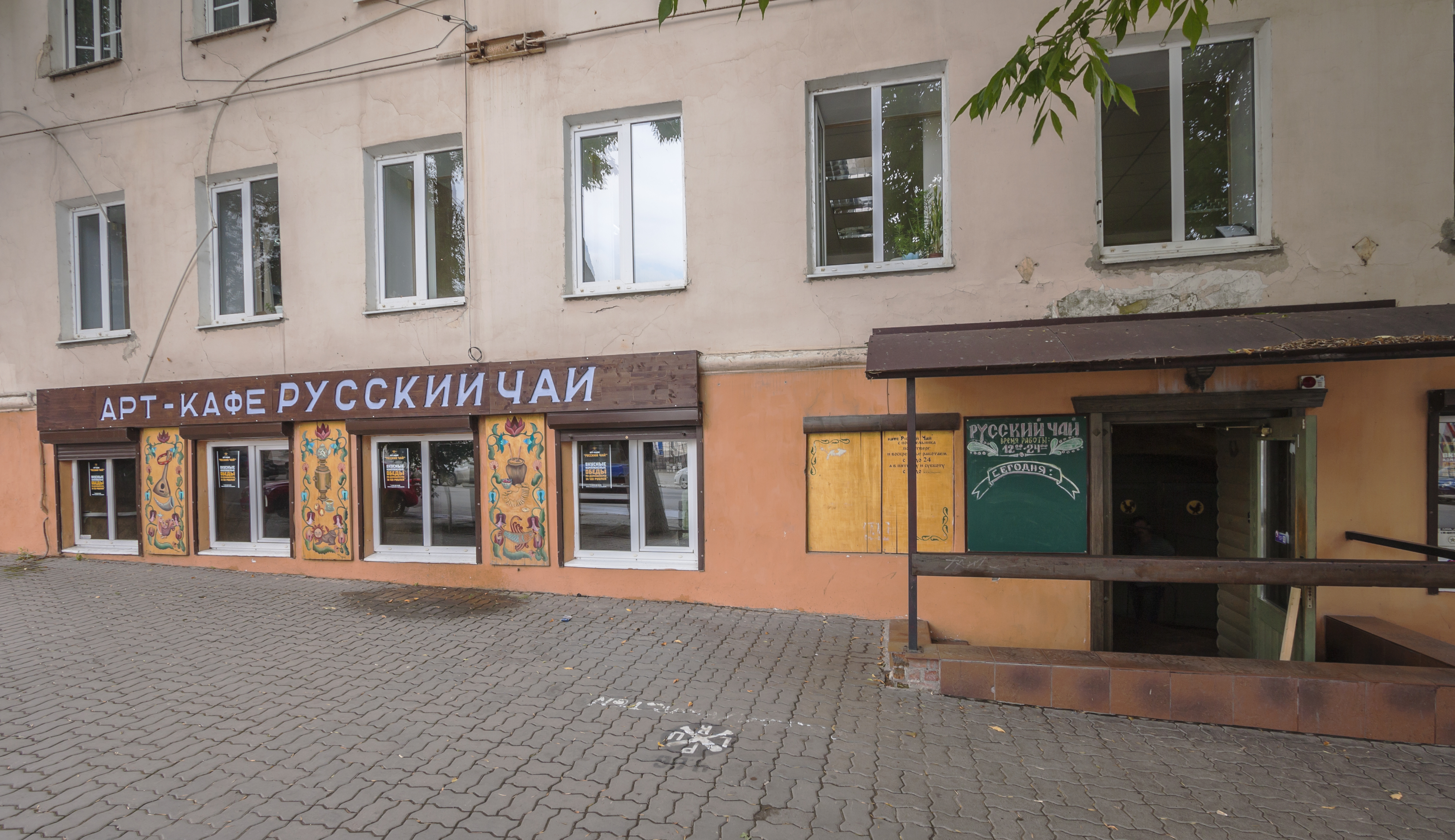 Art cafe "Russian tea", the city of Taganrog, Russian Federation